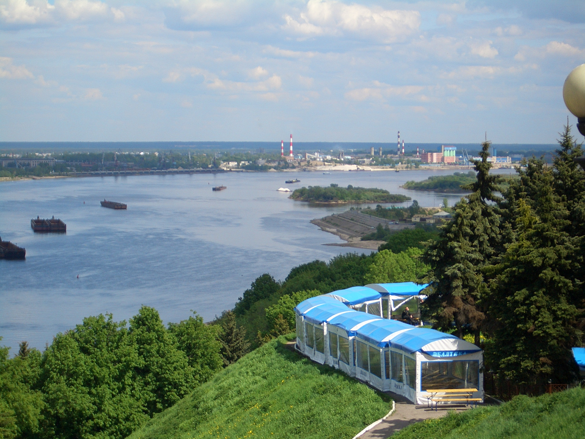 Looking east from the Chkalov Monument area in Nizhny Novgorod. The steep right bank of the Volga in the foreground, the low left bank in the background. The industrial area of the city of Bor can be seen on the far side.